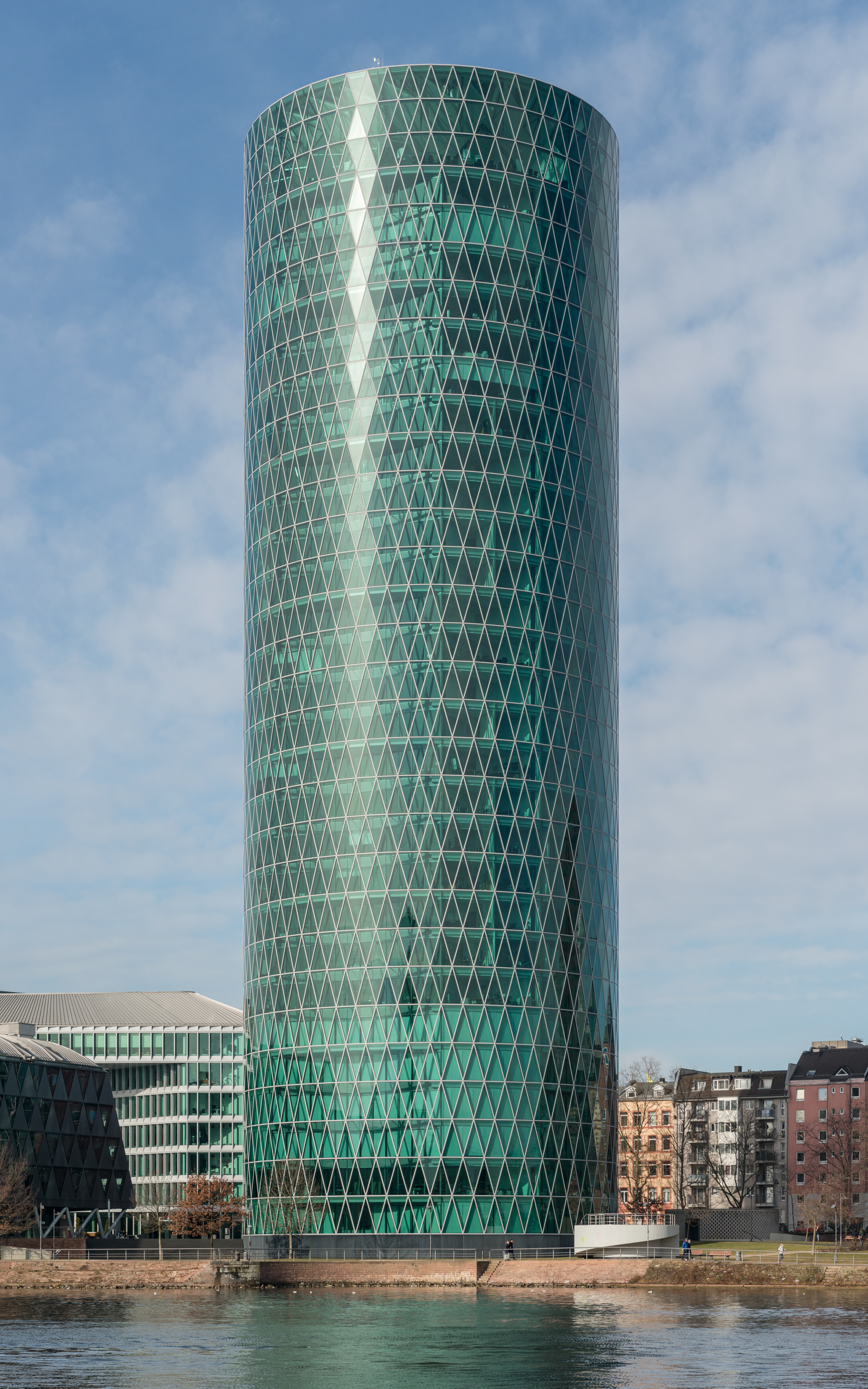 A southeast view of Westhafen Tower, Frankfurt am Main